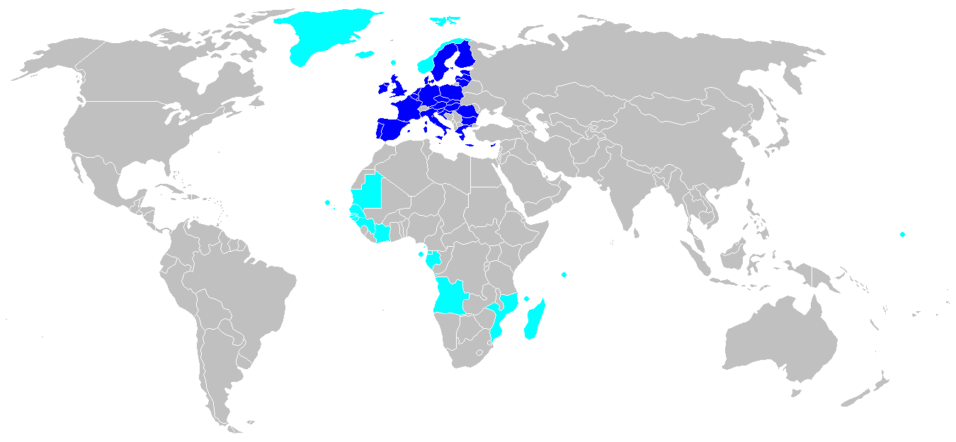 Map of countries or territories that have a fishing agreement with the EU (Greenland, Iceland, Faeroe, Norway, Mauritania, Senegal, Gambia, Guinea, Guinee Bissau, Cote d'Ivoire, Equatorial Guinea, Gabon, Angola, Mozambique, Comores, Seychelles, Madagascar, Fidji).